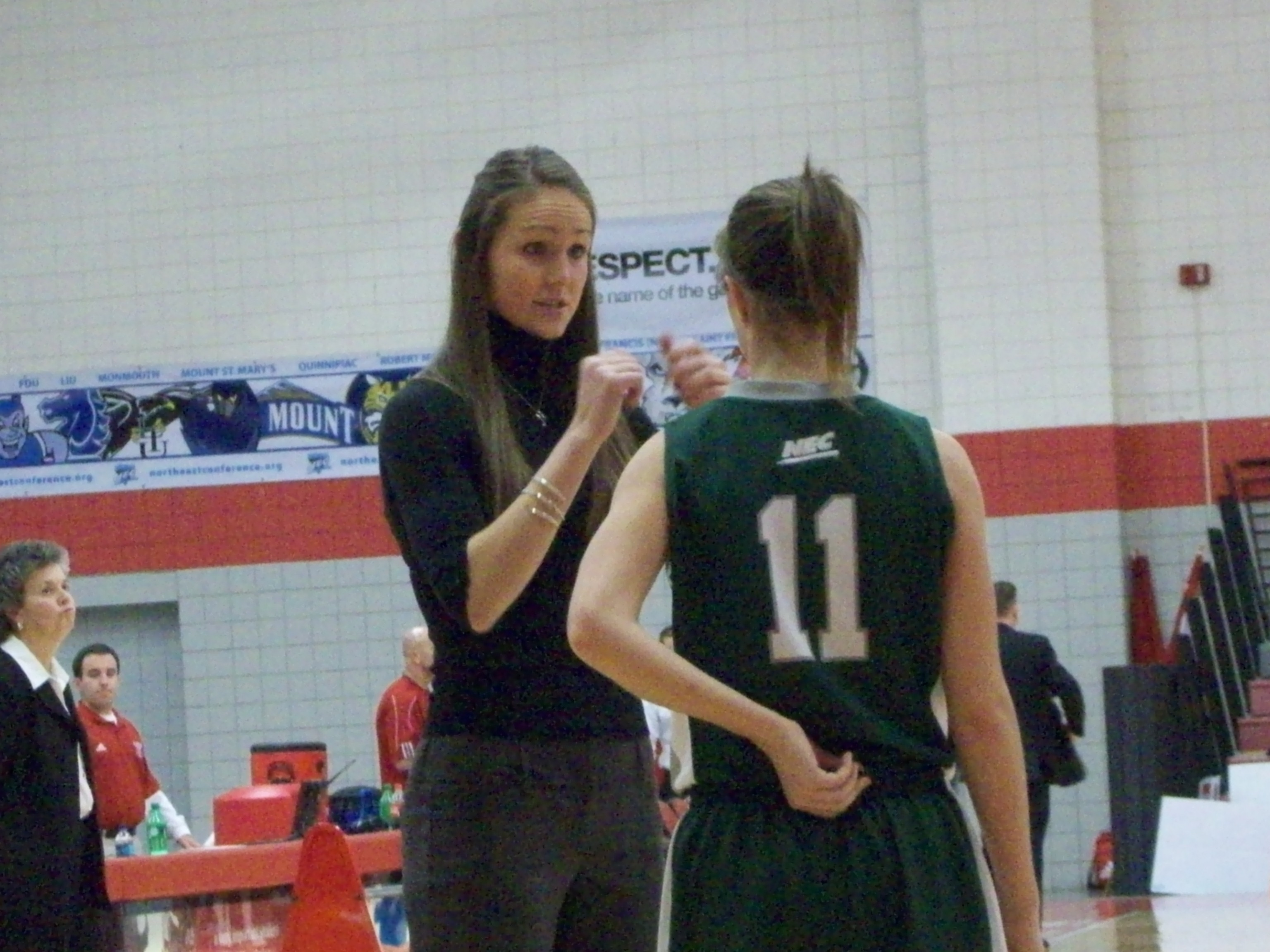 Heather Zurich instructing a Wagner College player.